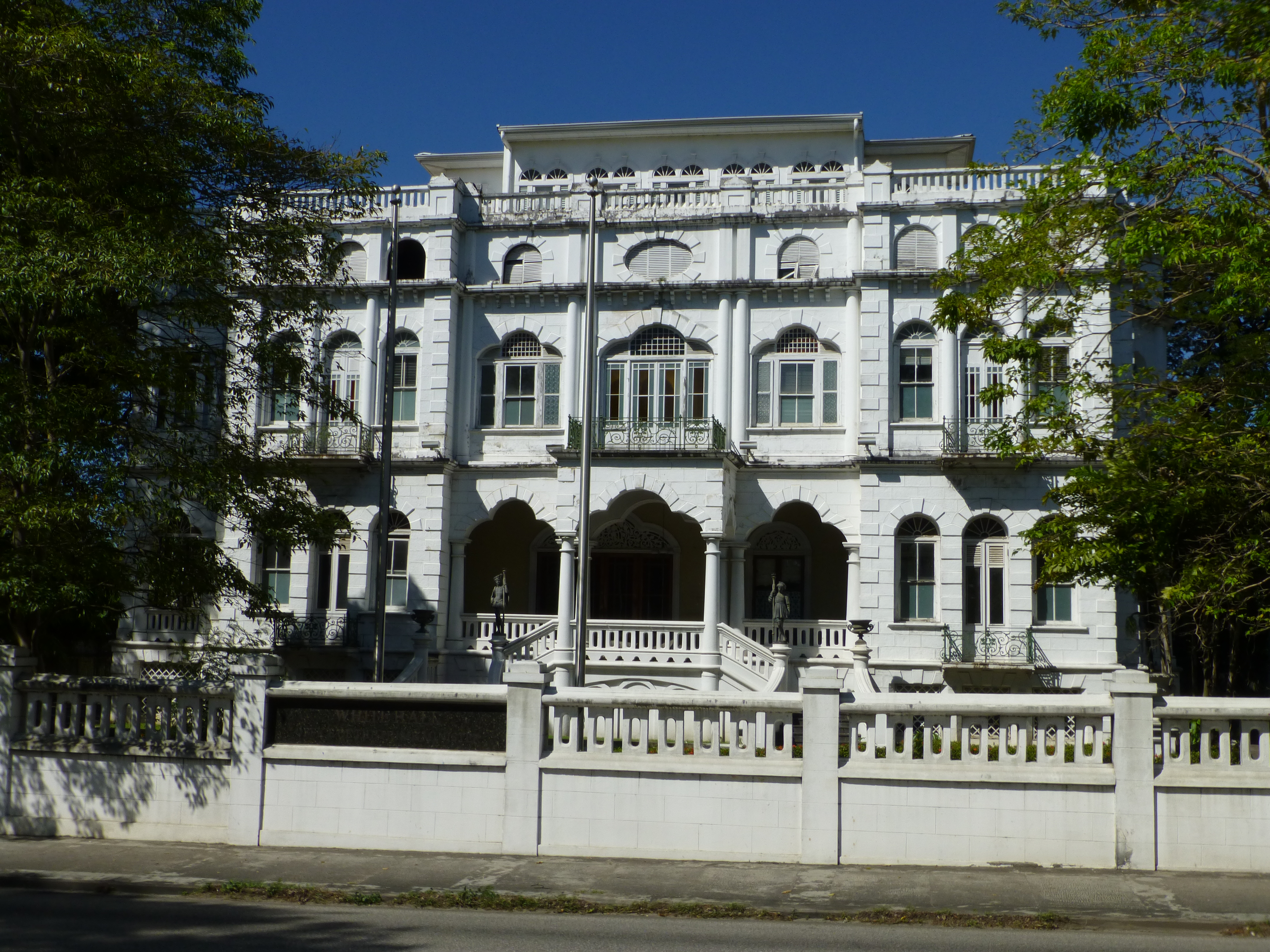 Whitehall, Magnificent Seven, St. Clair, Port of Spain, Trinidad.